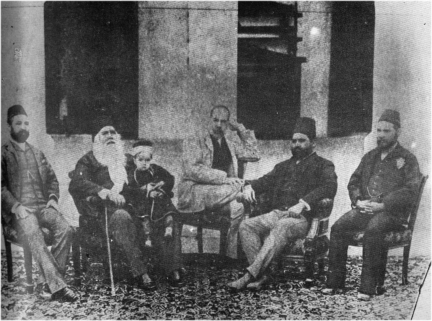 Sir Syed Ahmed khan with his admirer